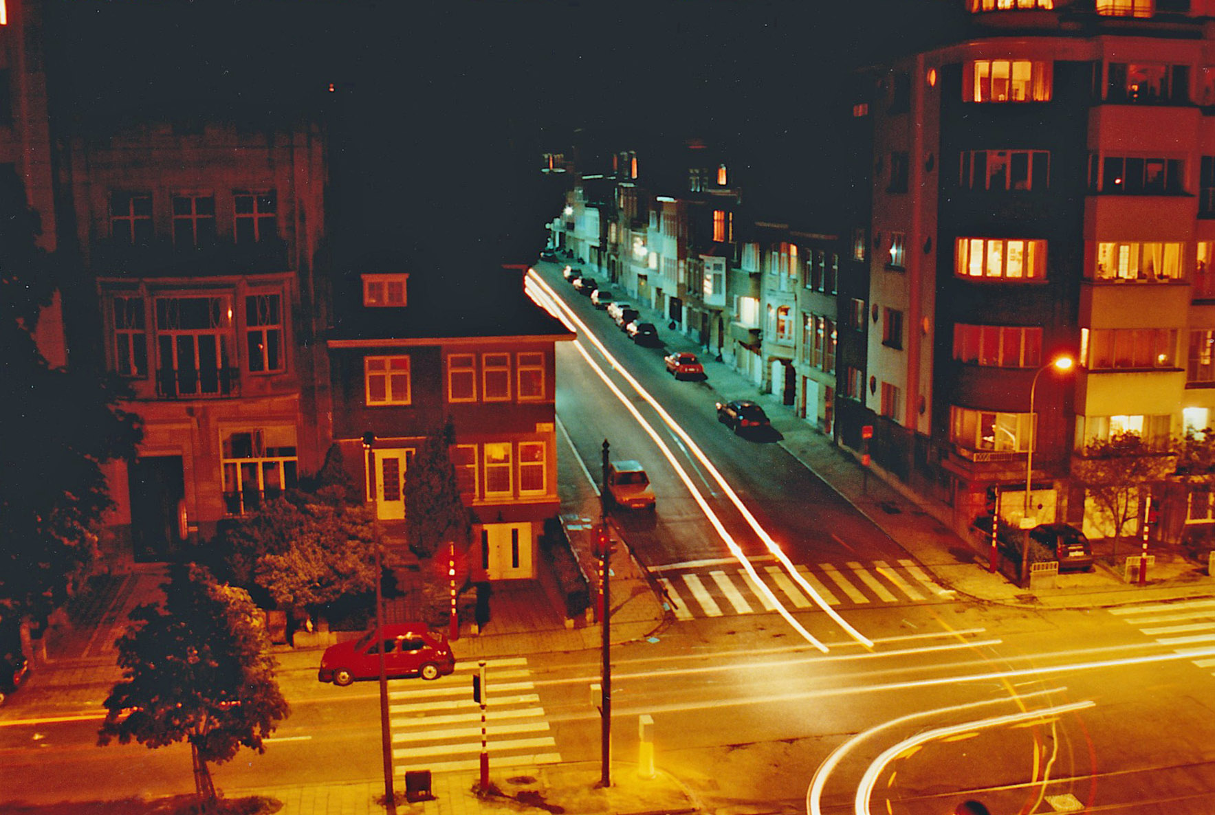 Guatemala Embassy at night (Brussels)